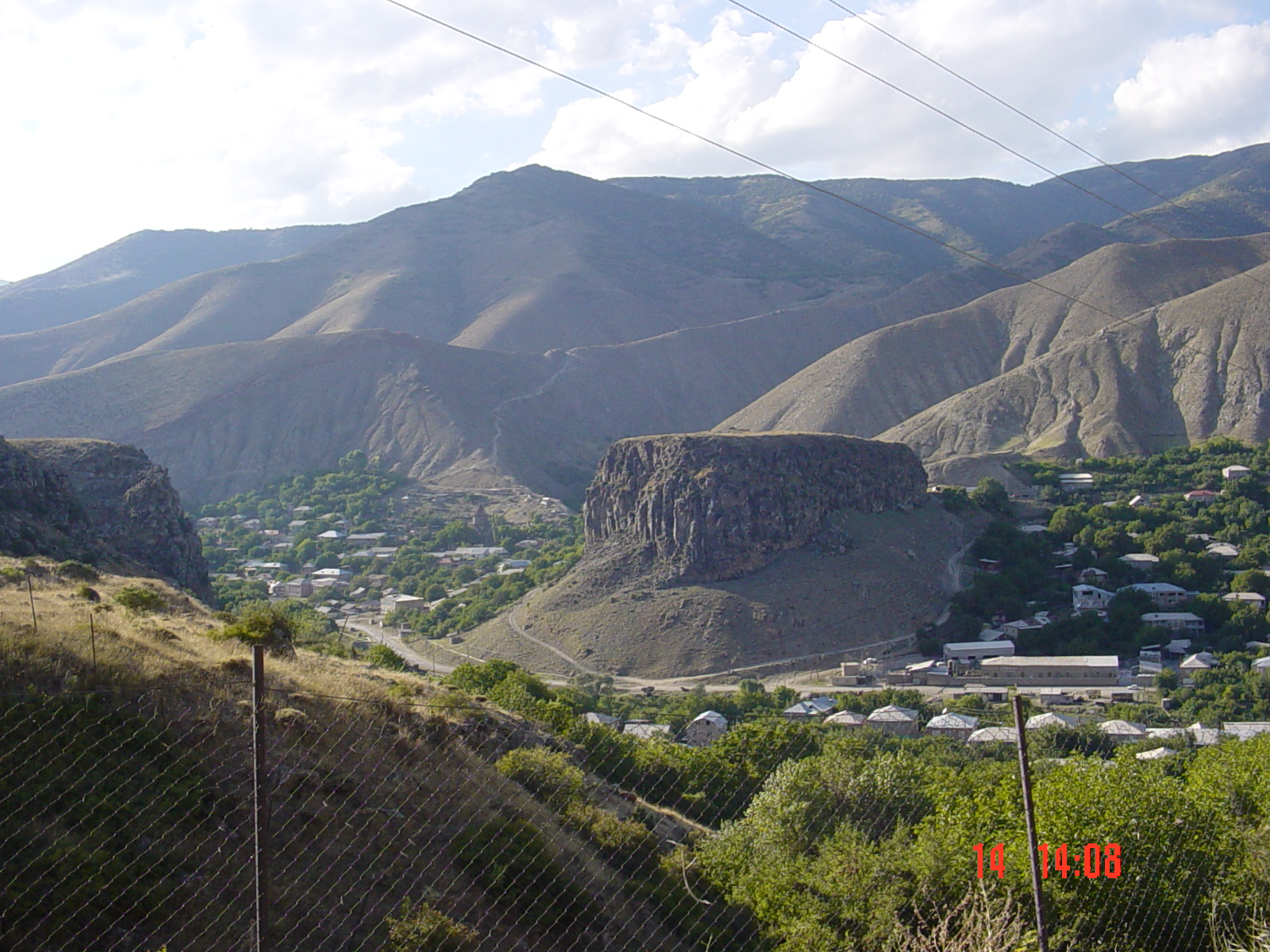 Panorama of Bjni village in Armenia.